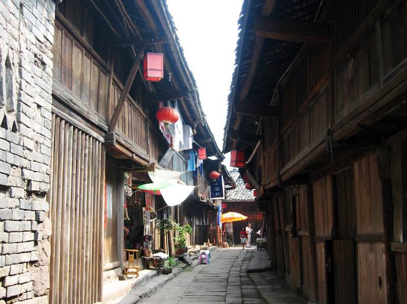 Xizi Lane of Lizhuang Township, Sichuan, China